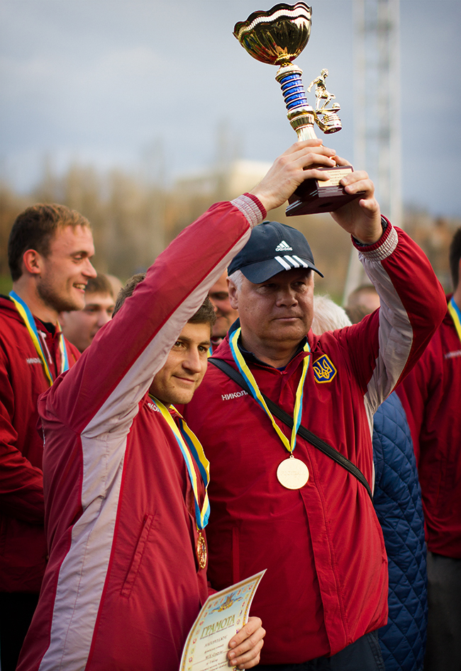 MFC Mykolaiv vs FC Sumy, 6 April 2013, Ukrainian First League